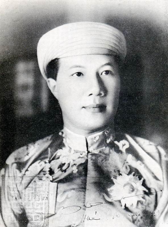 Emperor Bảo Đại